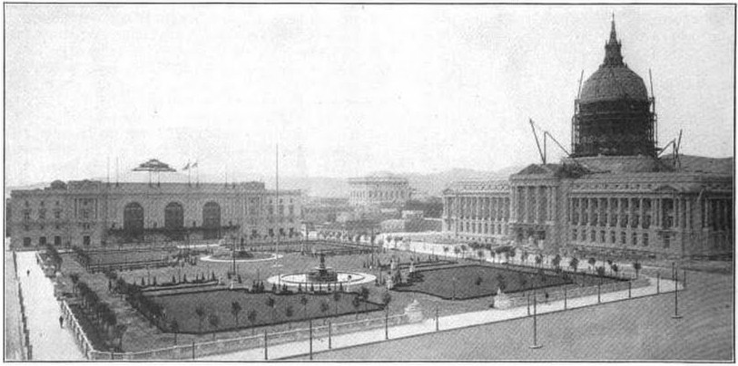 Photograph of Civic Center, including the Auditorium (background, left), City Hall (right), and Civic Center Plaza (central).